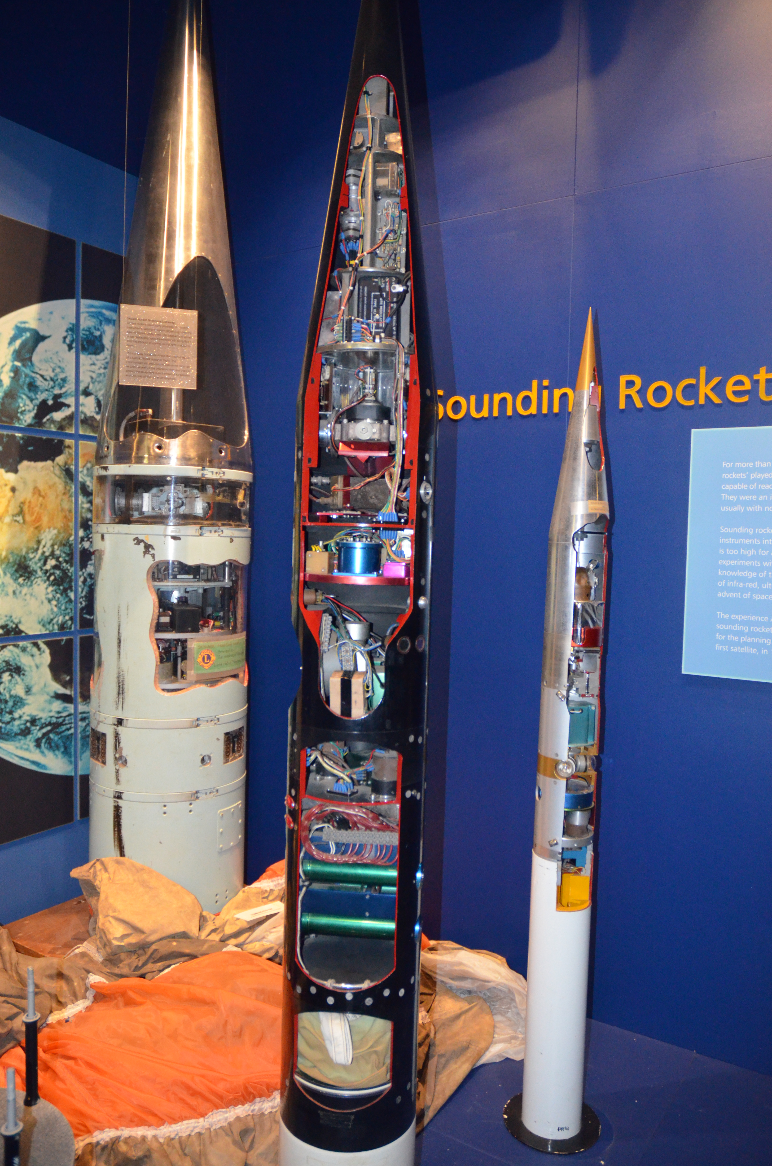 Sample Sounding rocket payload in a Museum near the Woomera Missile Park.